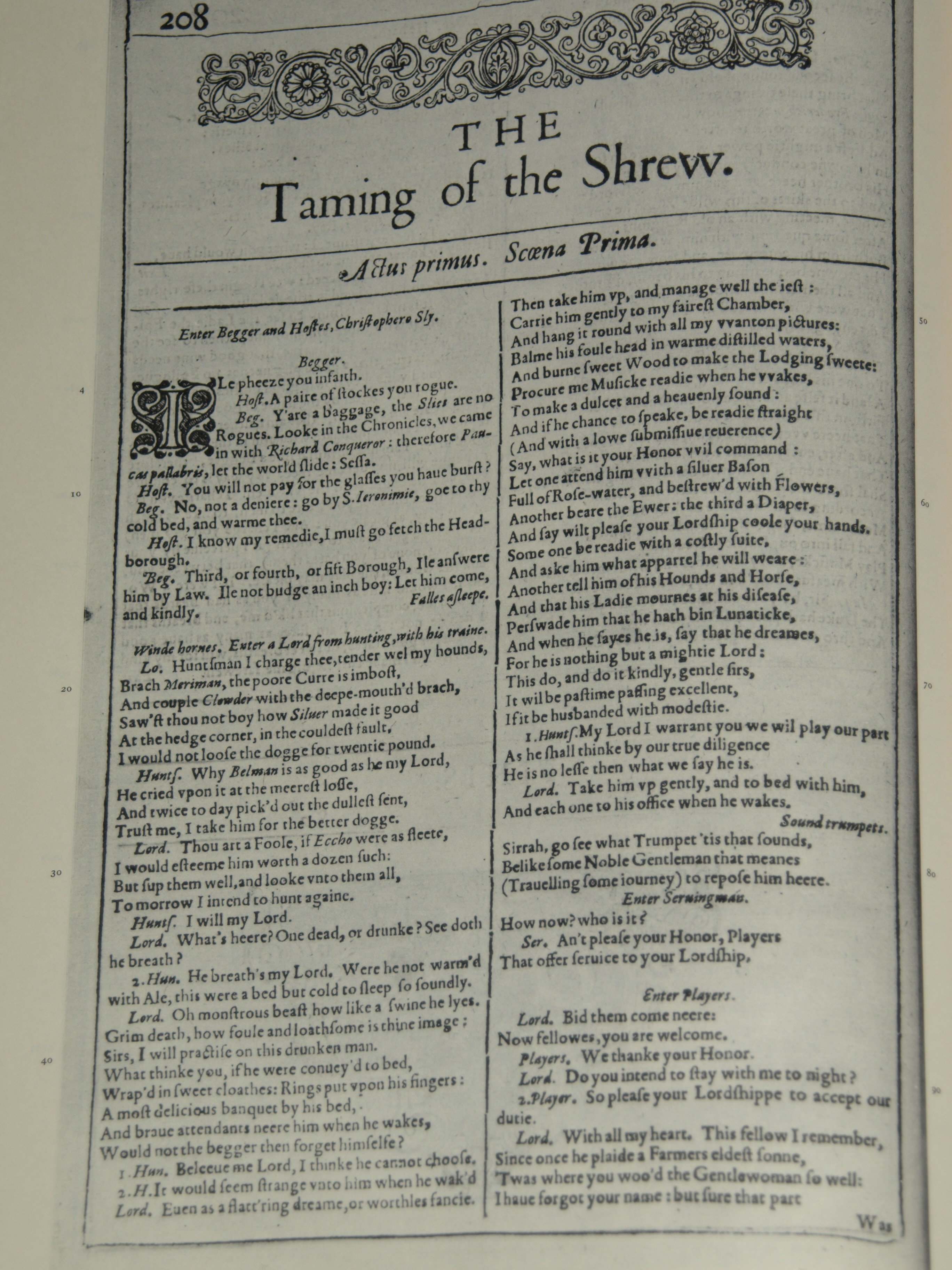 Photo of the first page of The Taming of the Shrew from a facsimile edition of the First Folio of Shakespeare's plays, published in 1623